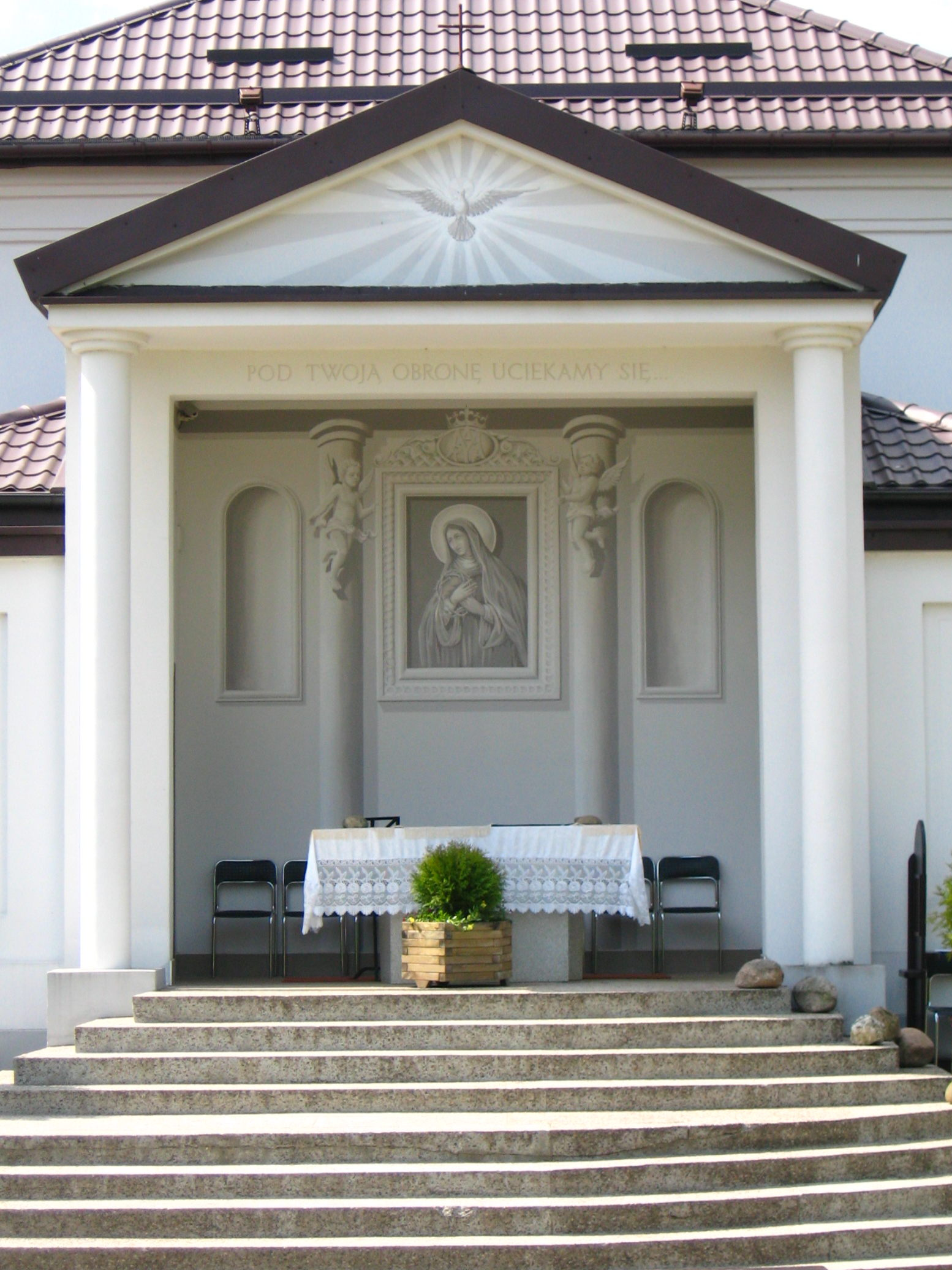 Sanctuary of Sorrowful Mother of God (year 1719) at Święta Woda (Holy Water) (Wasilków) — rear altar